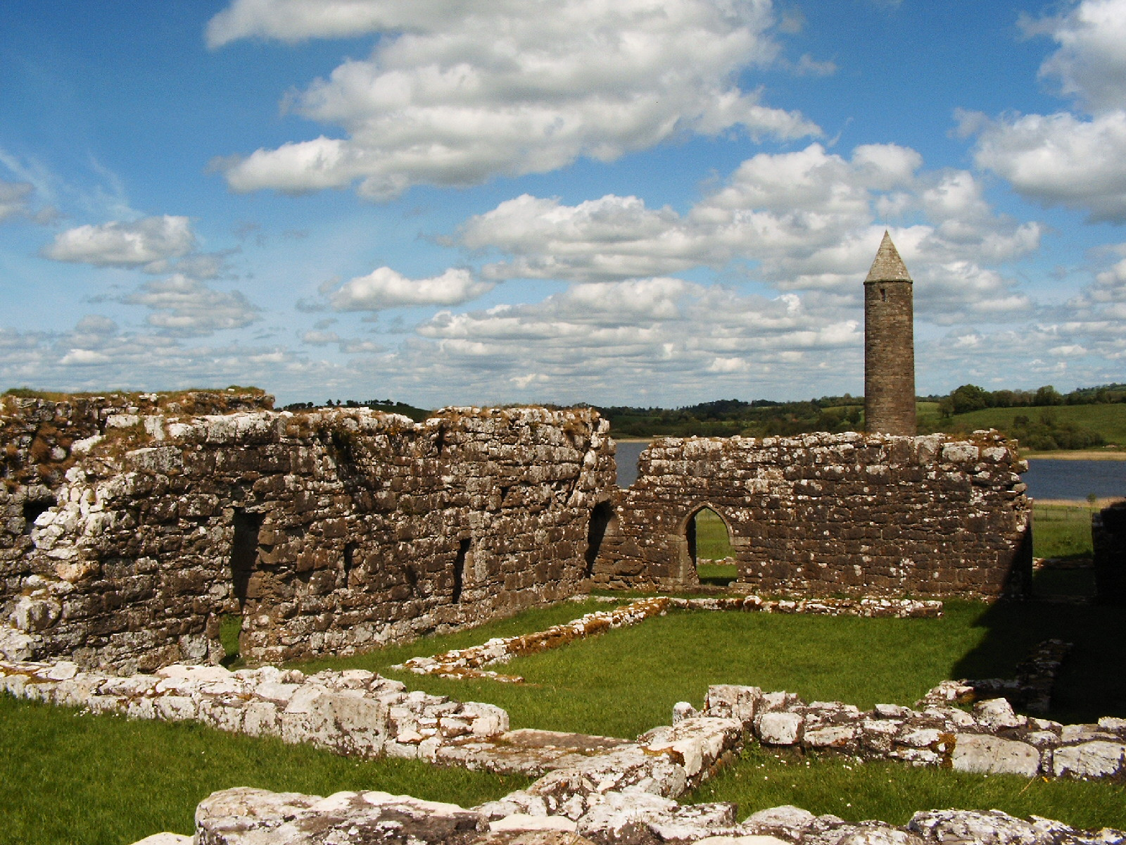 Devenish Island (in Irish: daimhinis, meaning Ox Island) is an island in Lower Lough Erne, north of Enniskillen, County Fermanagh, Northern Ireland.